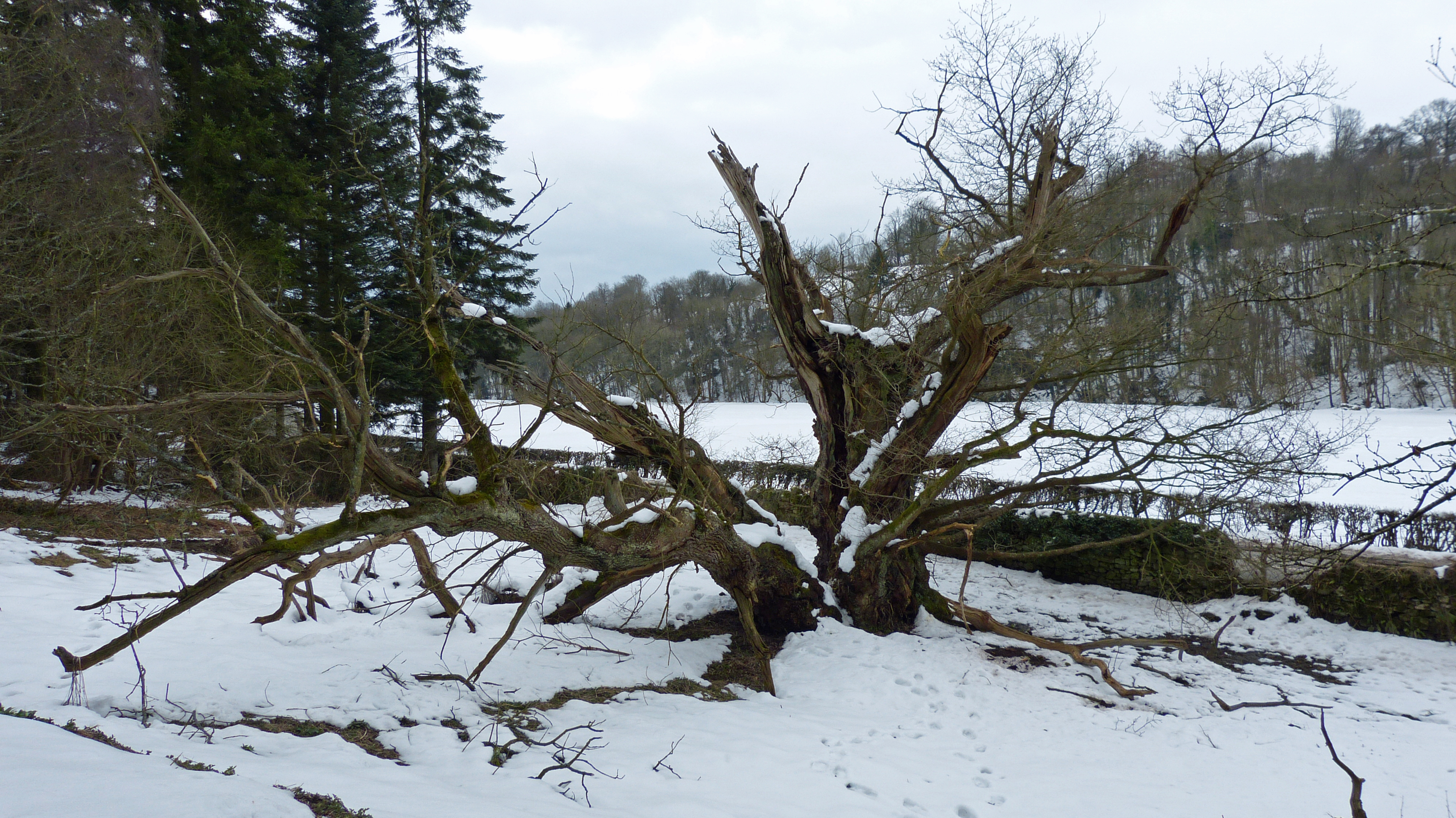 Gates of the Dead Oak, Chirk